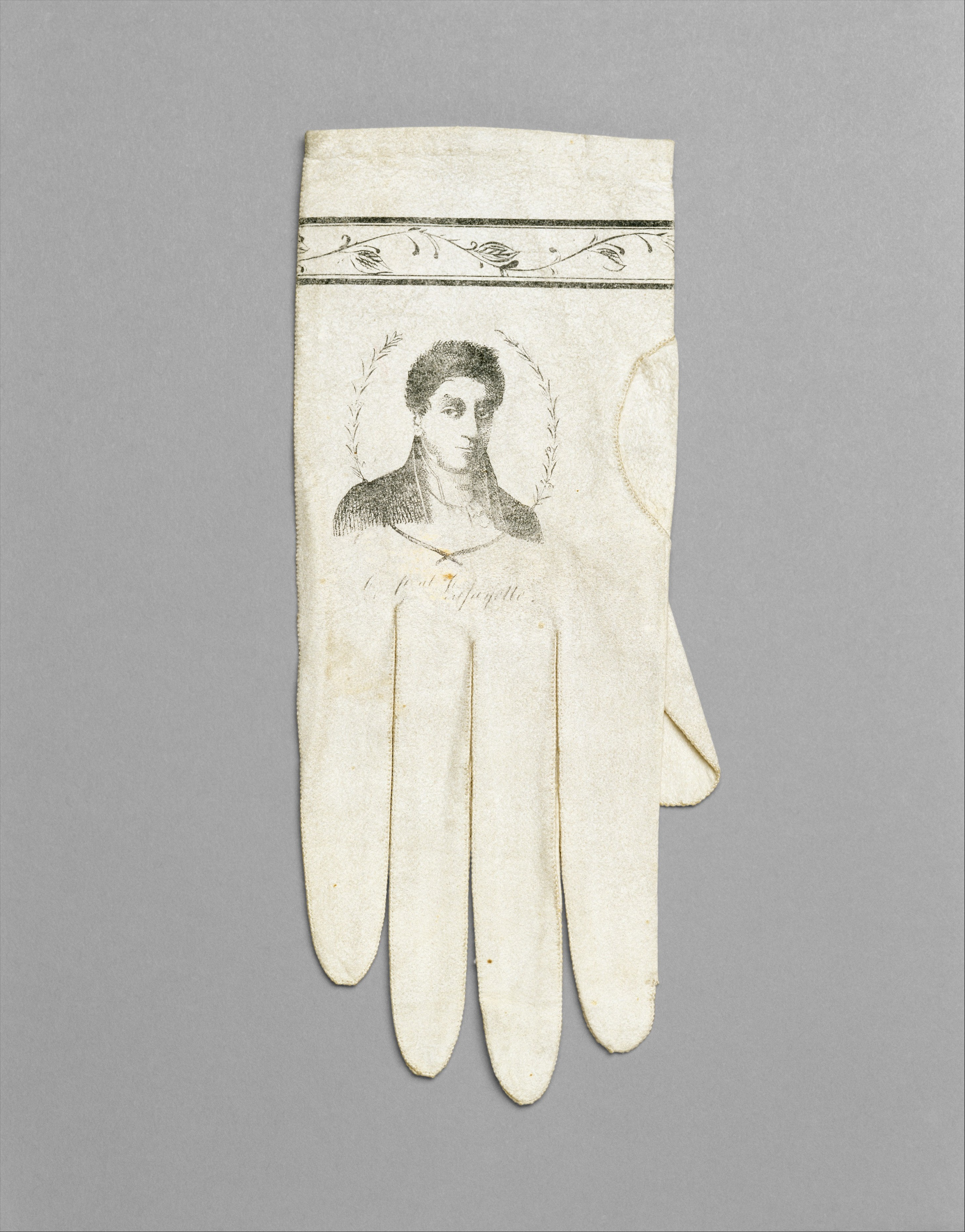 French; Gloves; "These gloves portray Lafayette and may commemorate his visit to the United States in 1824."